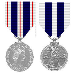 Queen's Police Medal 1954